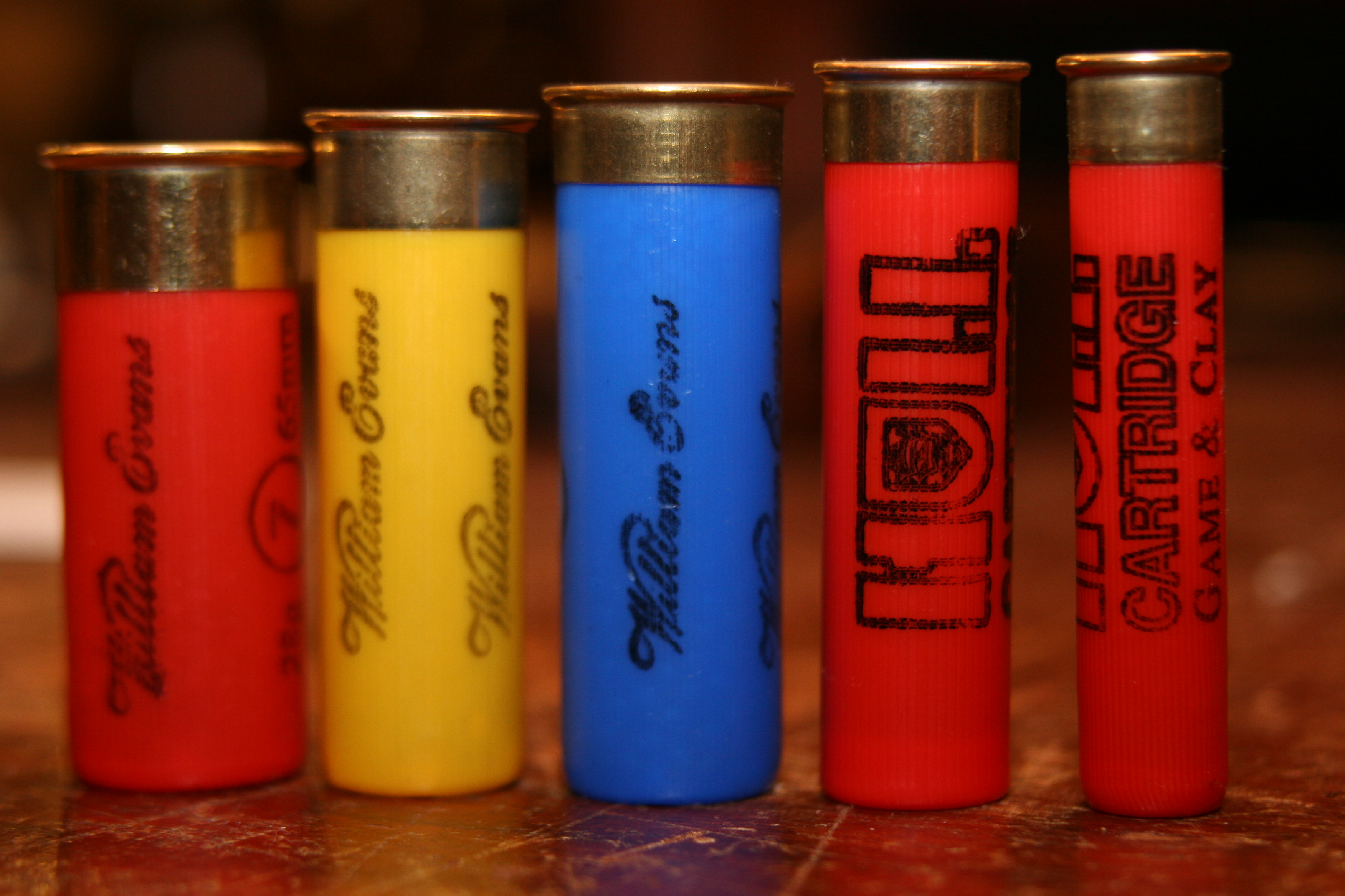 Different cartridges, left-right, 12-bore, 20-bore, 16-bore, 28-bore, .410, on display at London gunmaker William Evans.